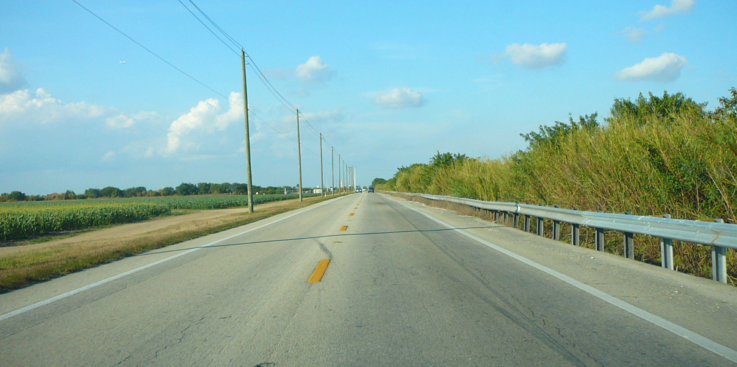 Krome Avenue northbound a few miles south of Kendall Drive, in the southwest metropolitan Miami, FL area.